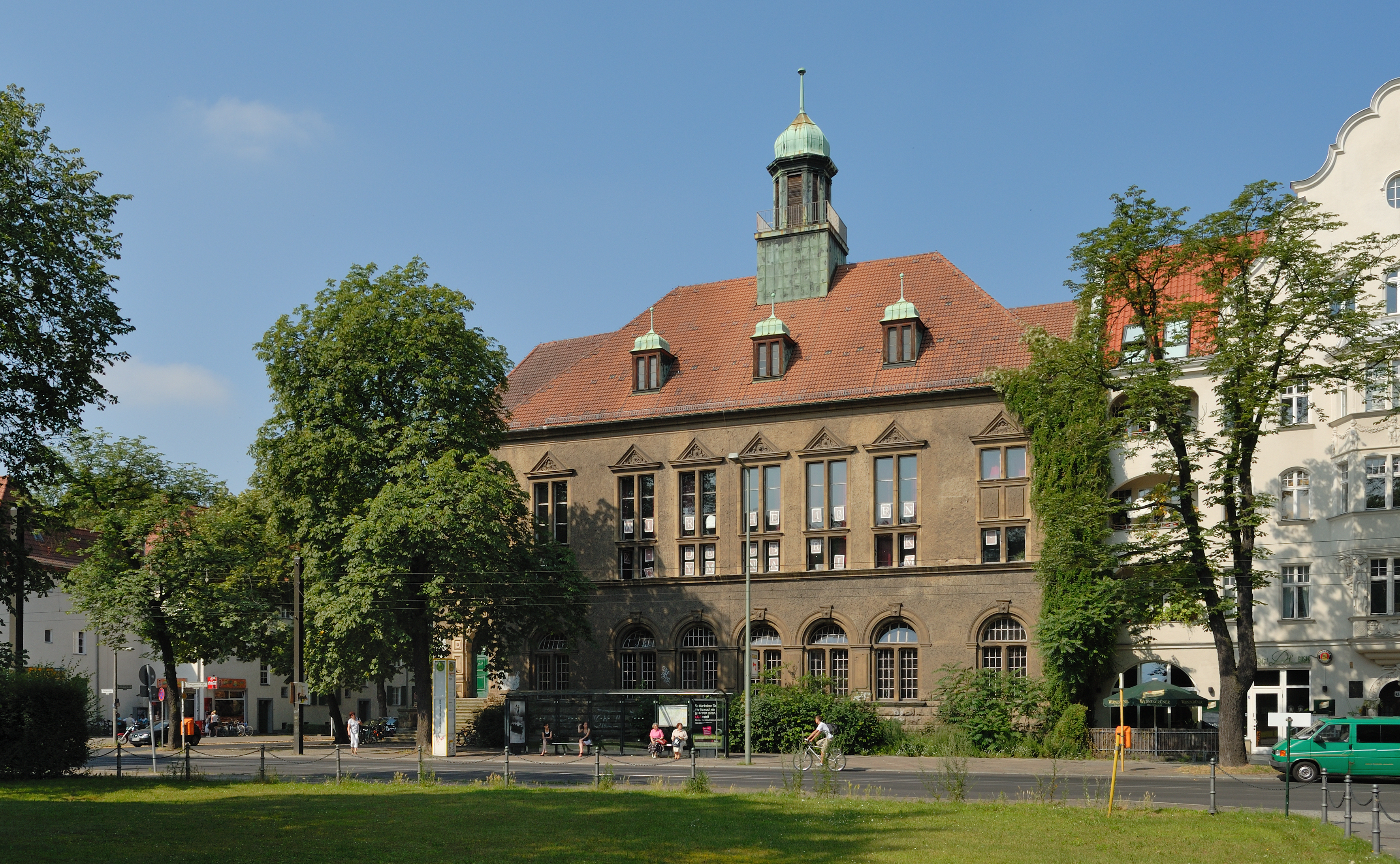 Max Delbrück secondary school in Berlin-Niederschönhausen, east view.